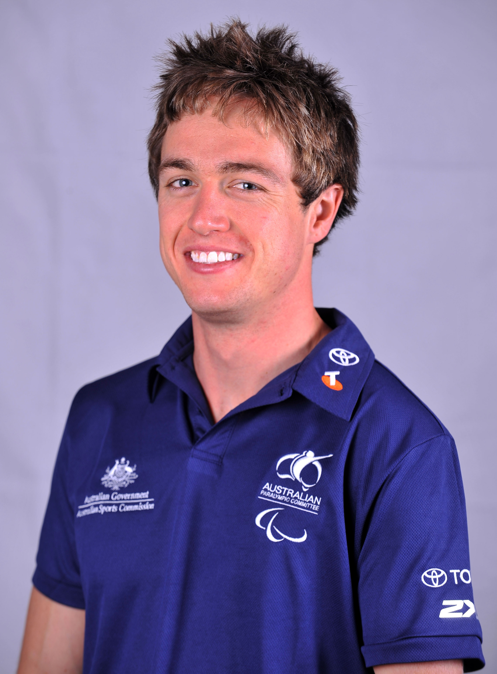 Portrait of Australian athlete Simon Patmore, 2012 Australian Paralympic (shadow) Team athlete